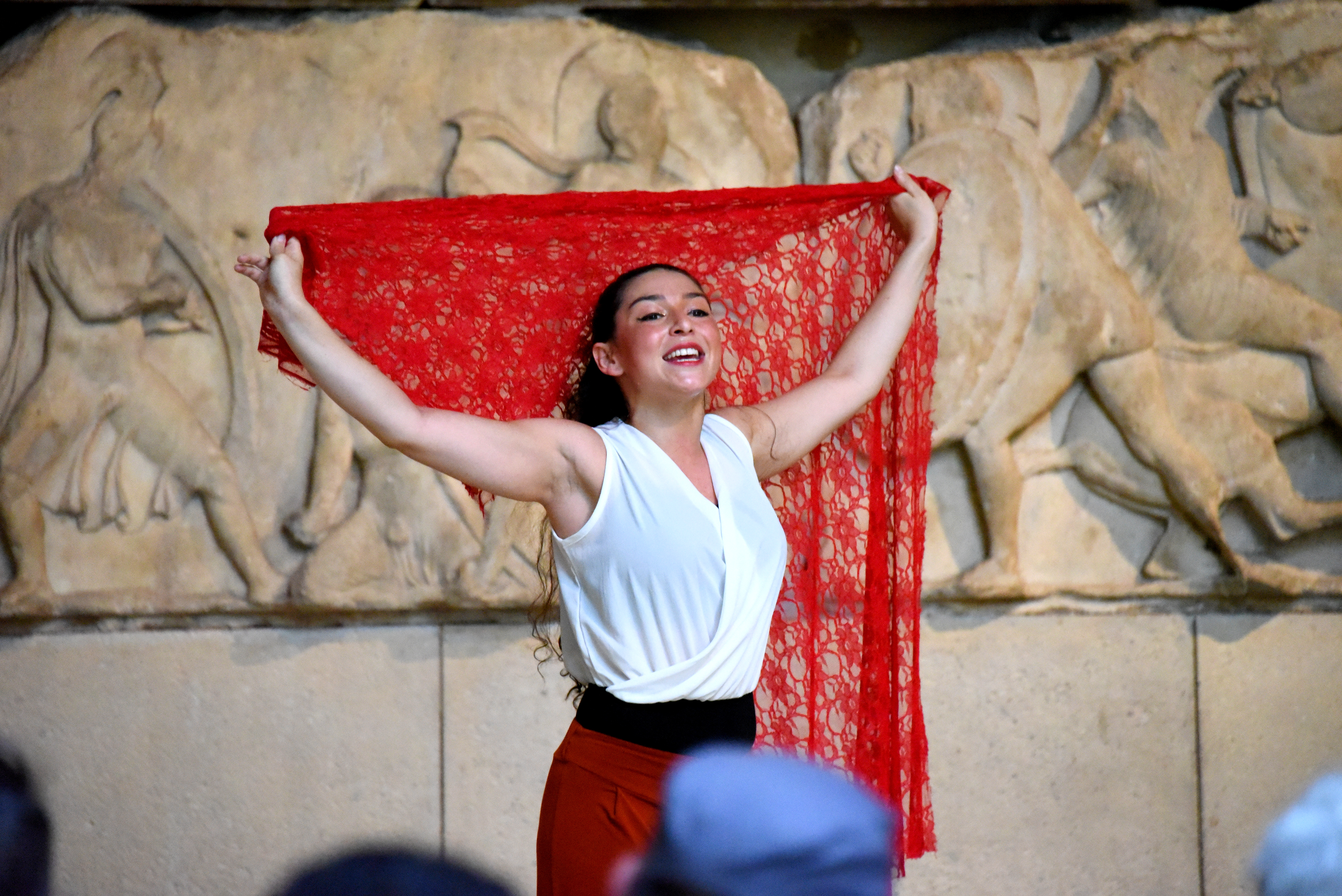 Room 17, the Nereid Monument at the British Museum, London. An actress, Genevieve Dunne, performs Myths of an Island: Aeneas in Sicily in front of the Nereid Monument.